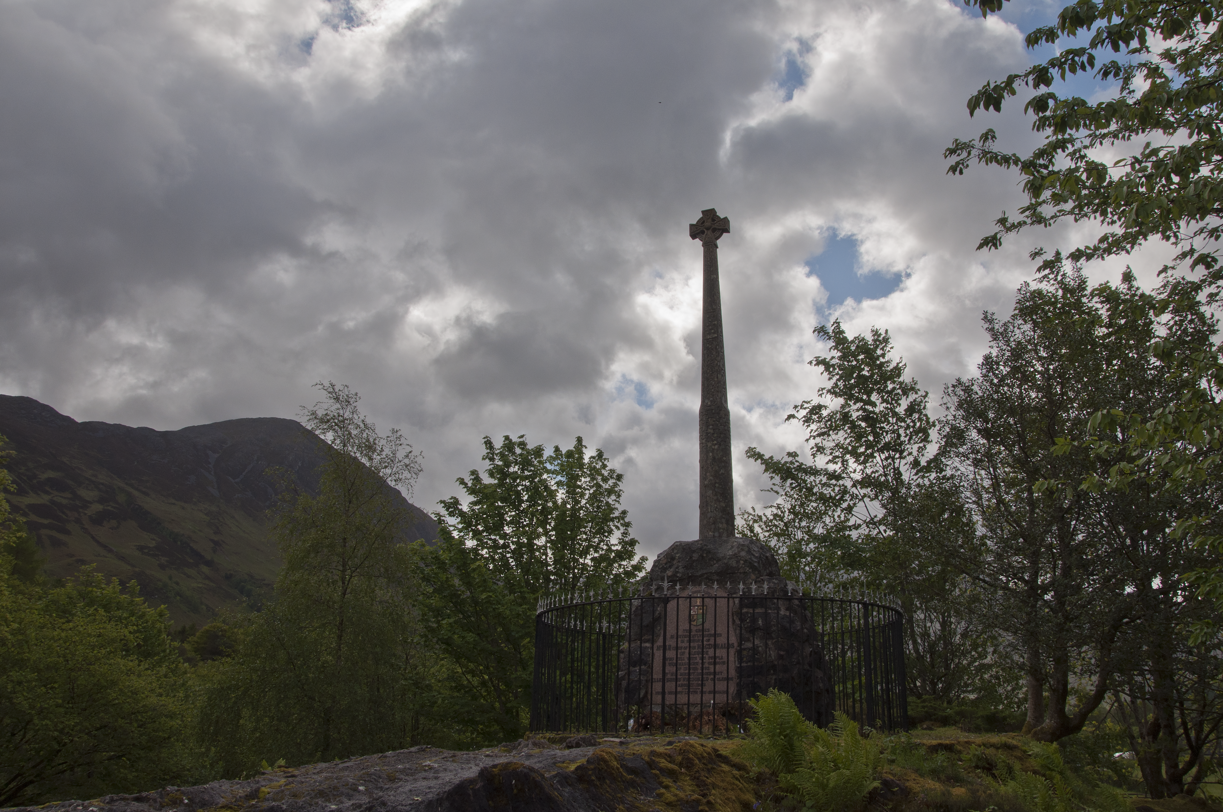 Monument to commemorate the massacre of Glencoe, Glencoe Scotland